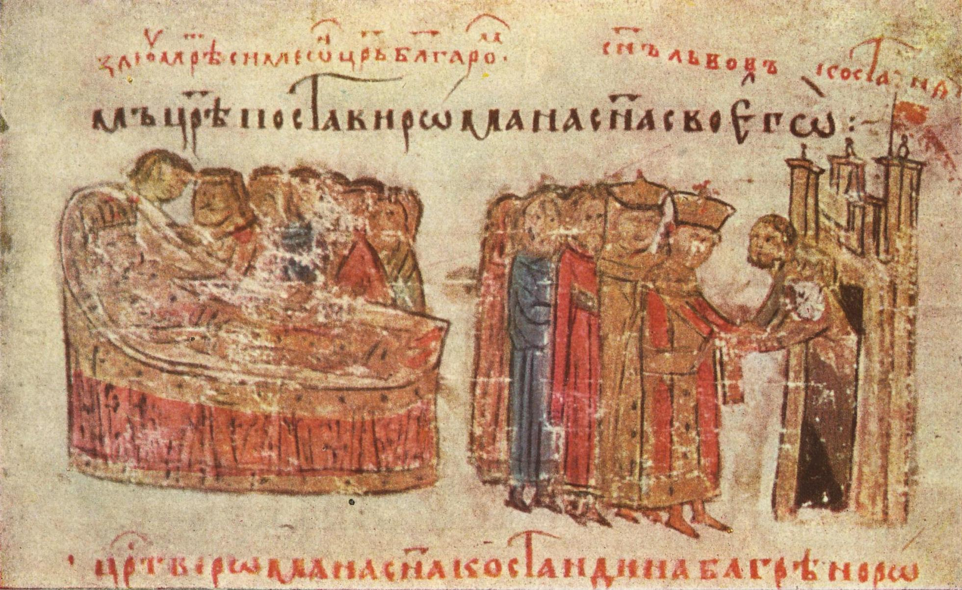 Miniature 62 from the Constantine Manasses Chronicle, 14 century: The death of tsar Peter I of Bulgaria and the return of his sons from Constantinople.